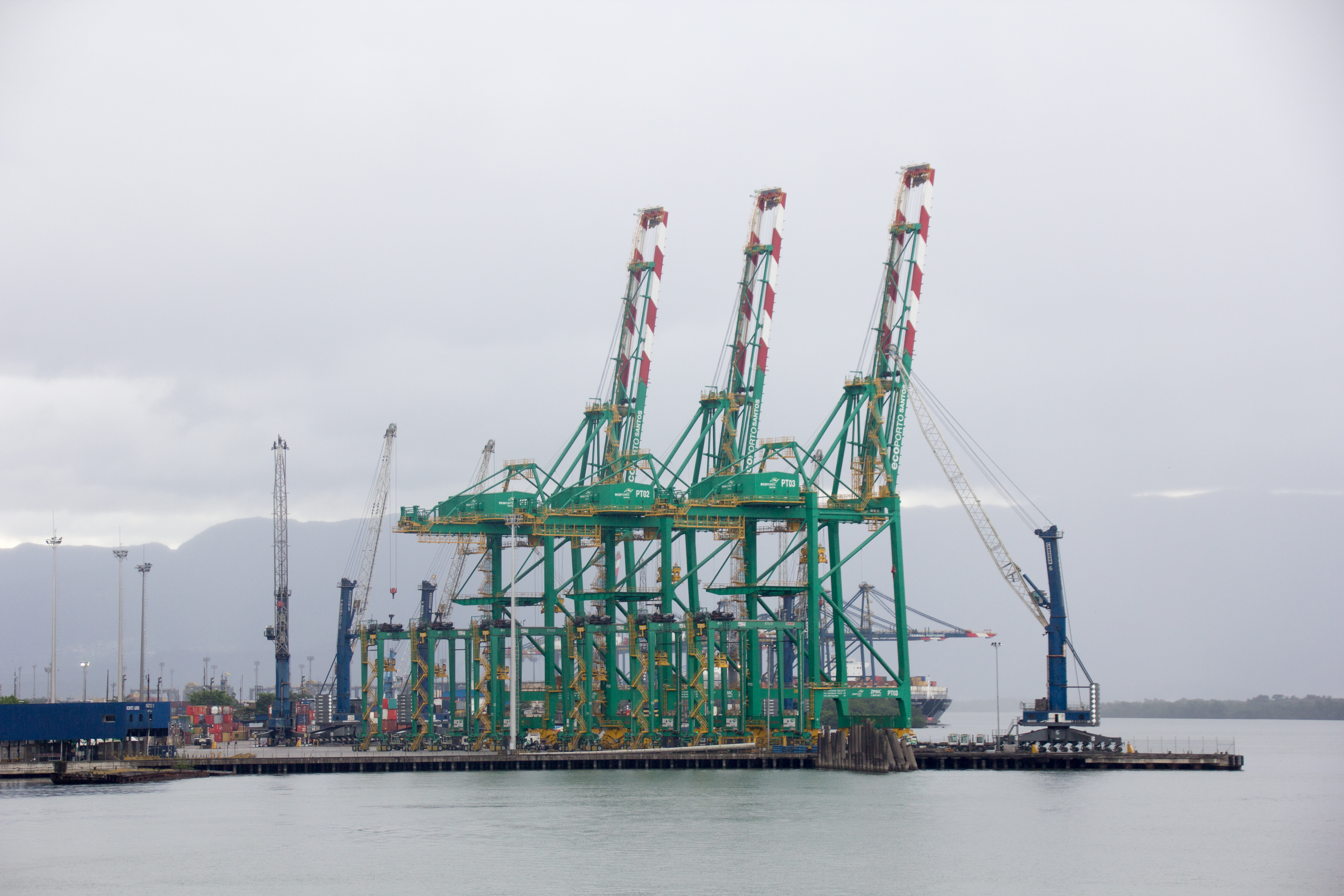 Santos, Brazil